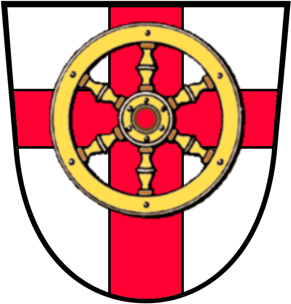 Coat of arms of Lahnstein